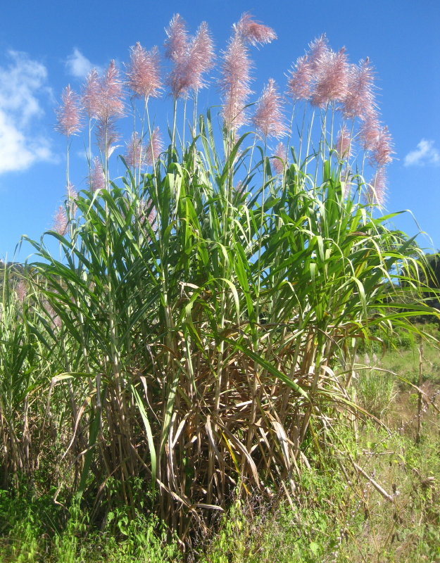 Flowering thick-stemmed sugar cane (Saccharum officinarum), Zembe, Manica province, Mozambique.